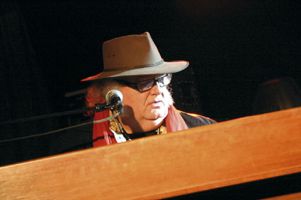 Thijs van Leer at Lillehammer